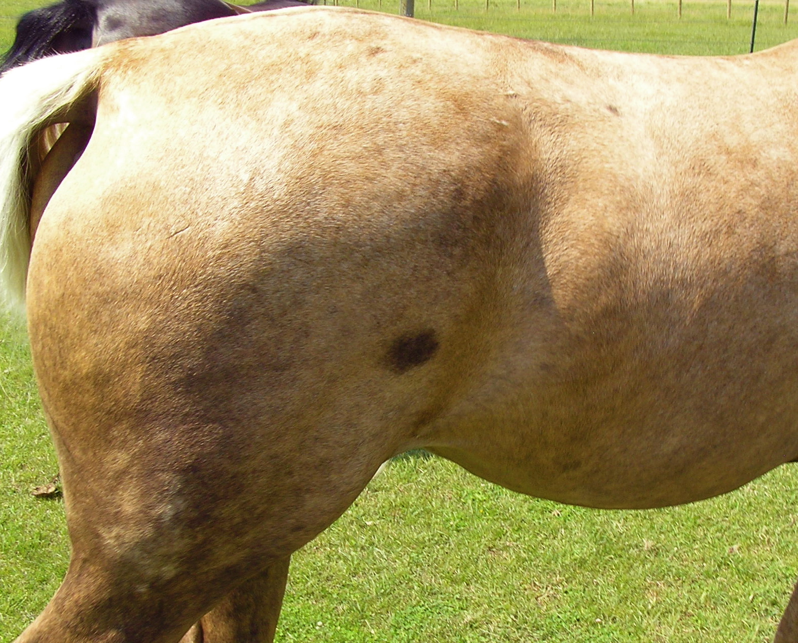 A palomino horse with a "bend-or" spot near its flank, also note sootiness of hairs on upper hind leg and very faint dorsal stripe.